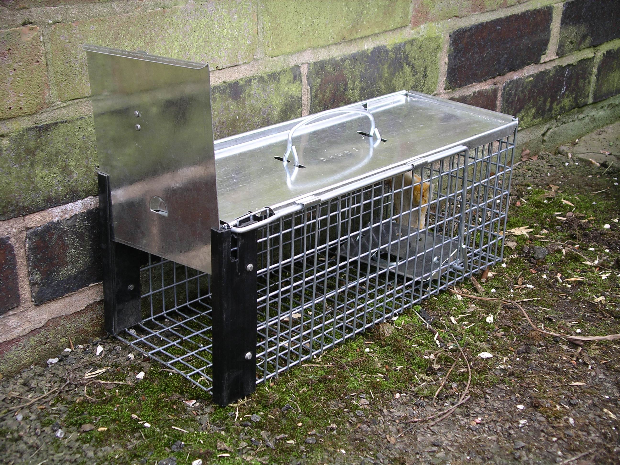 A cage trap designed to catch rats. The door closes by gravity when the rat moves the penal which is attached to levers. The cage contains bread as bait.